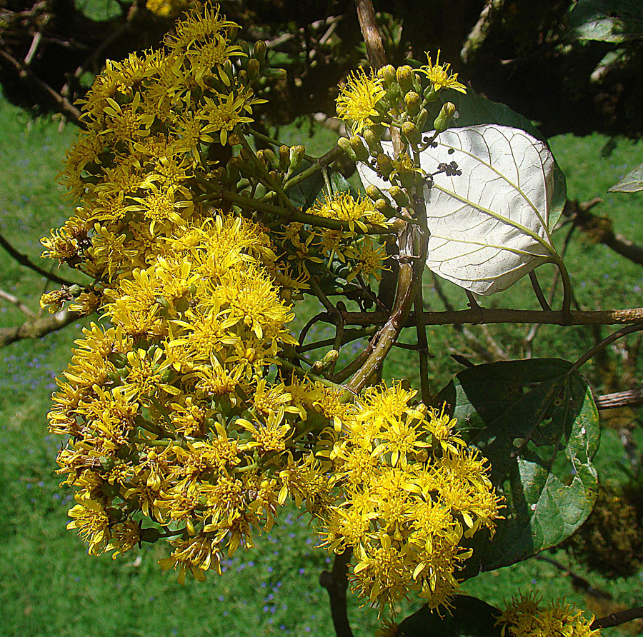 Sinclairia polyantha near Monteverde, Costa Rica.